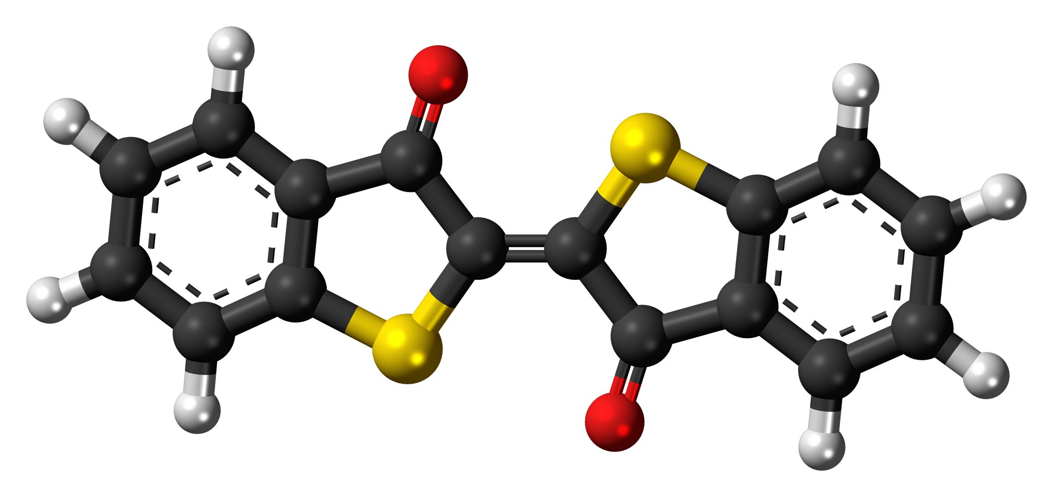 Ball-and-stick model of the thioindigo molecule, a deep red dye. Colour code: Carbon, C: black Hydrogen, H: white Oxygen, O: red Sulfur, S: yellow